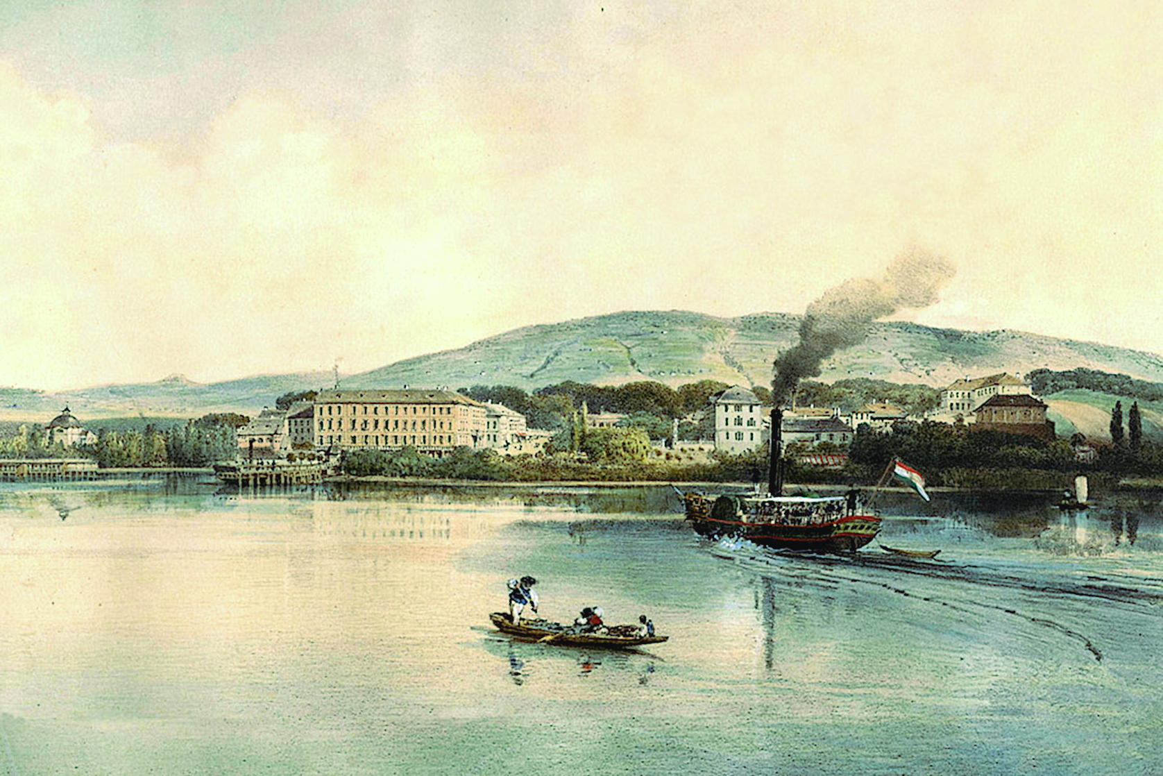 A Kisfaludy gőzhajó Balatonfüred előtt